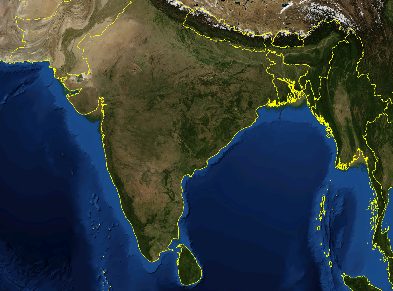 Satellite image of India and surrounding regions